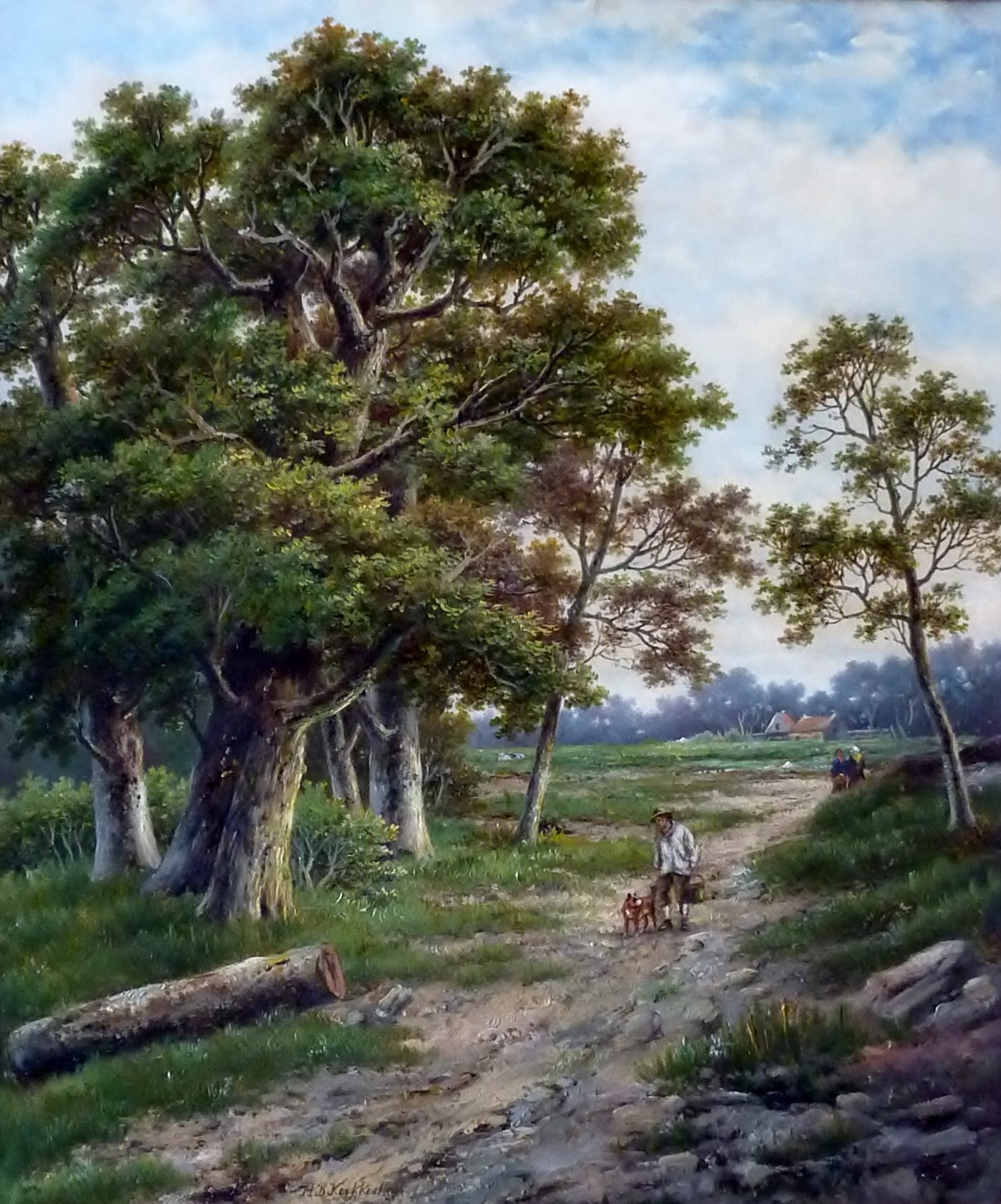 Bosgezicht